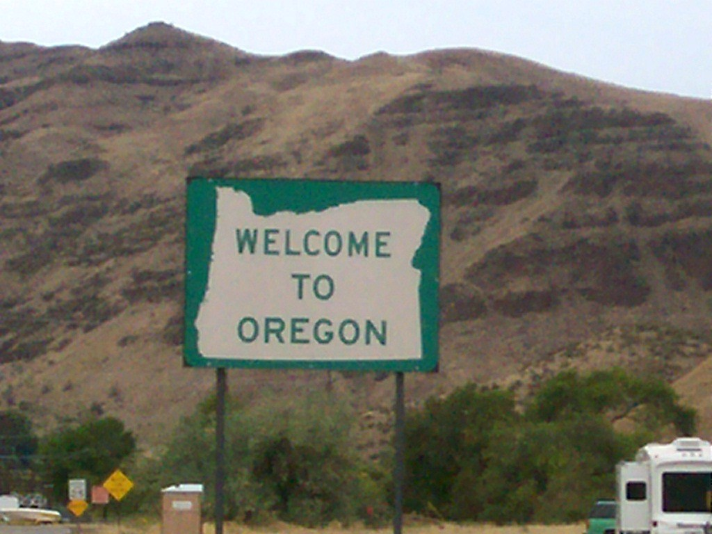 Welcome to Oregon sign